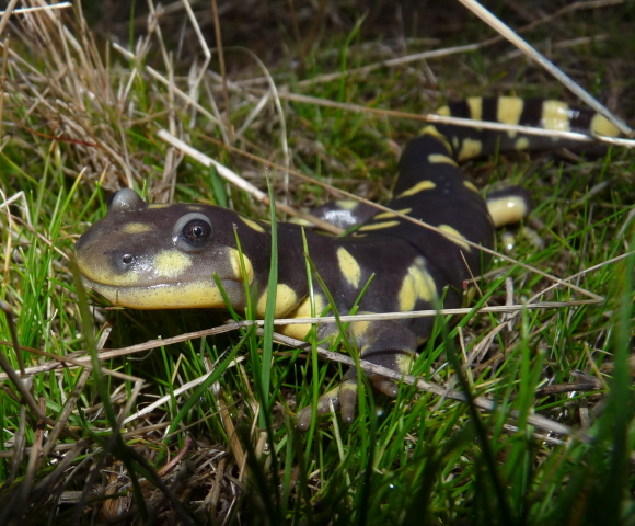 California tiger salamander (Ambystoma californiense)